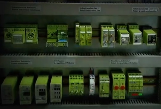 timer Tetun: temporizador